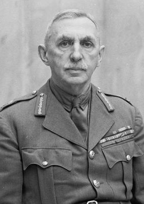 A crop of Photo GM786 in the Imperial War Museum collection. Official photograph. Caption reads "Dobbie seated at his desk, on the conclusion of his Governorship of Malta." May, 1942.